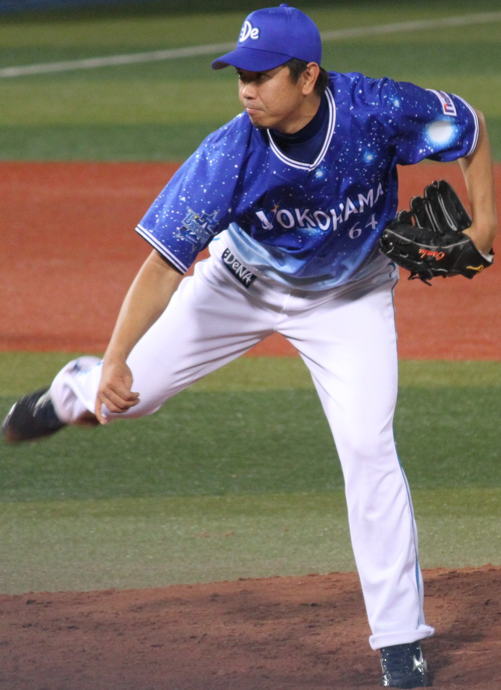 Shuichiro Osada, pitcher of the Yokohama DeNA BayStars, at Yokohama Stadium.